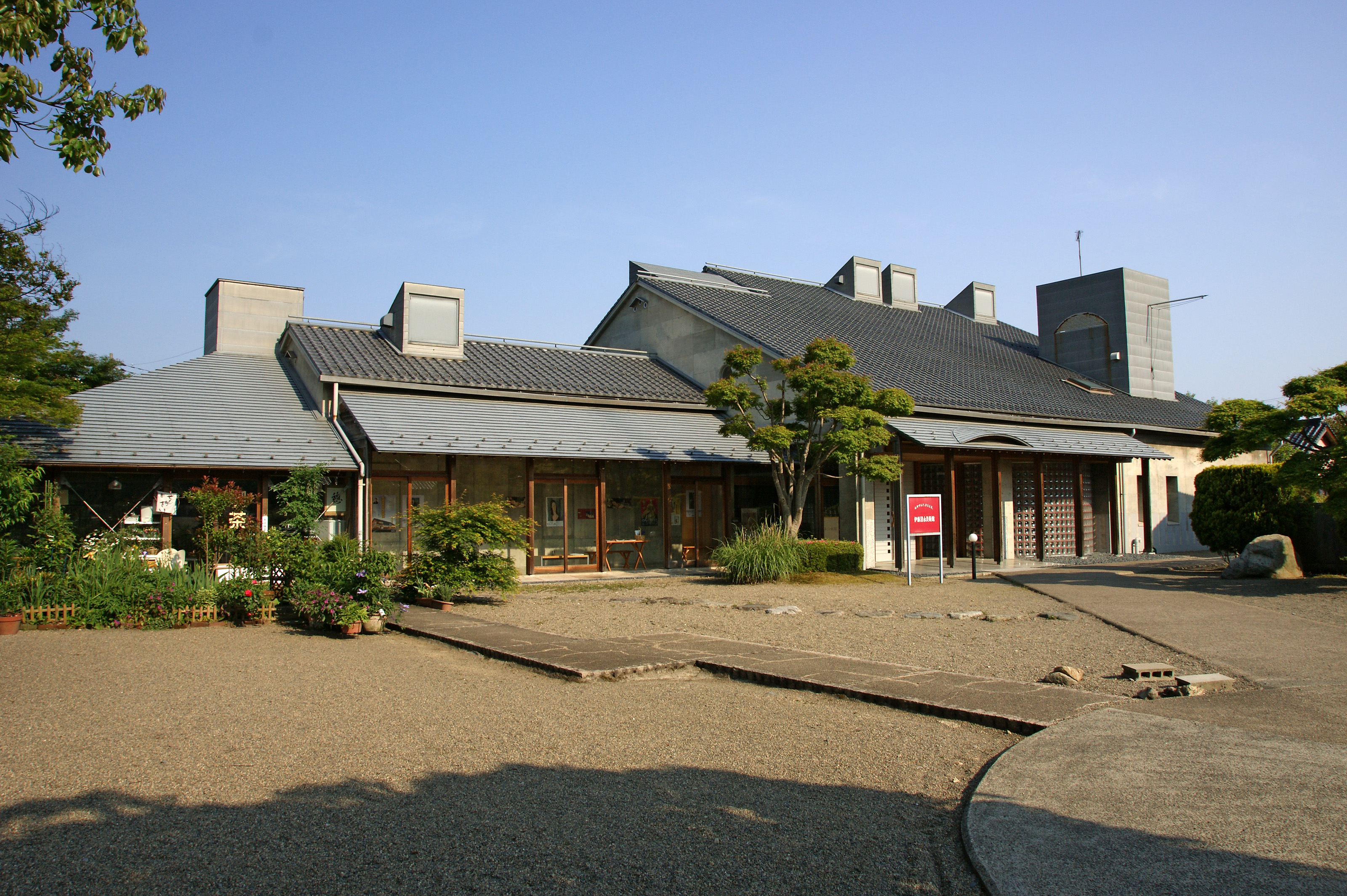 Ito Kiyonaga Memorial Museum of Art in Toyooka, Hyogo prefecture, Japan